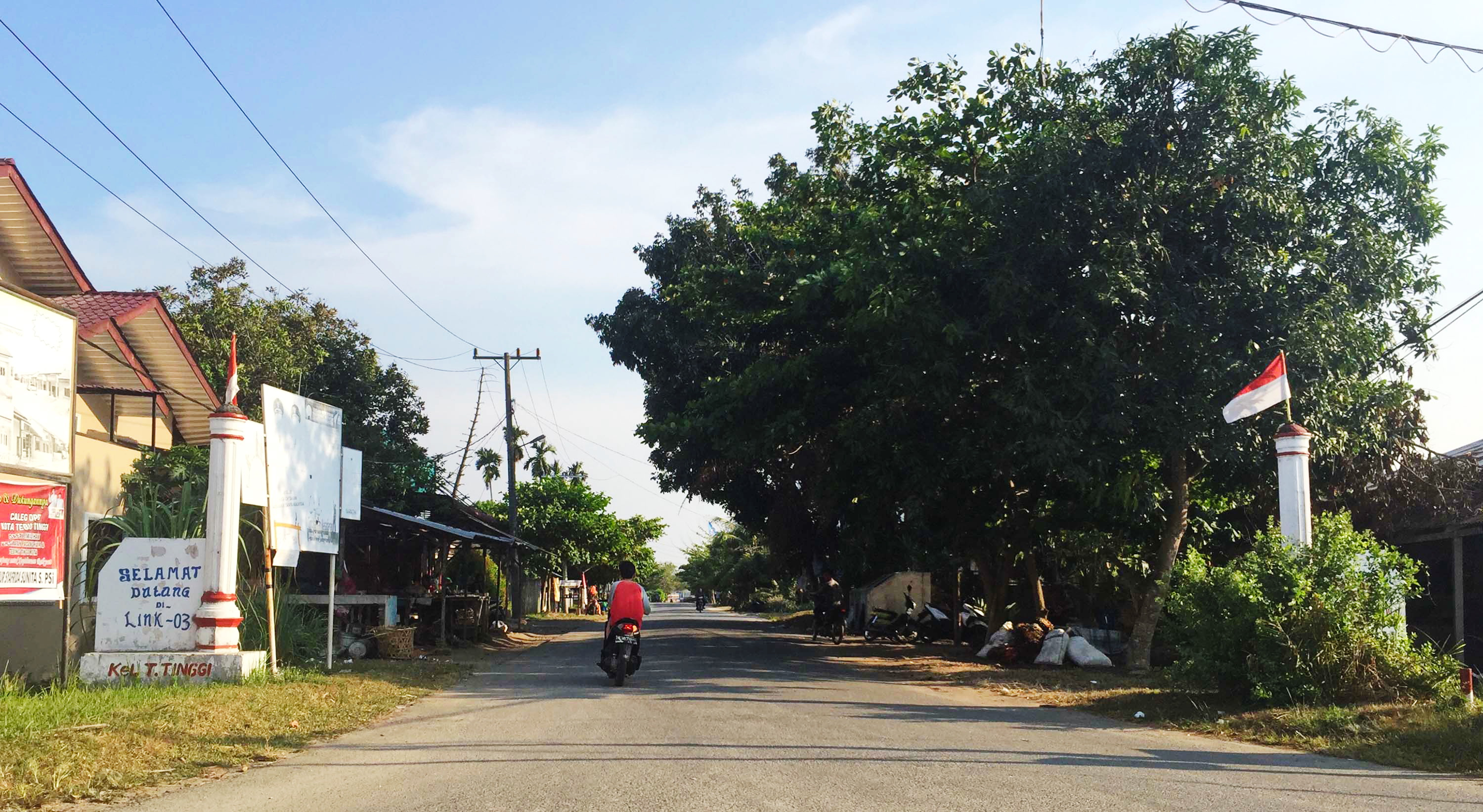 Welcome gate to Tebing Tinggi (lingkungan 03), Padang Hilir, Tebing Tinggi